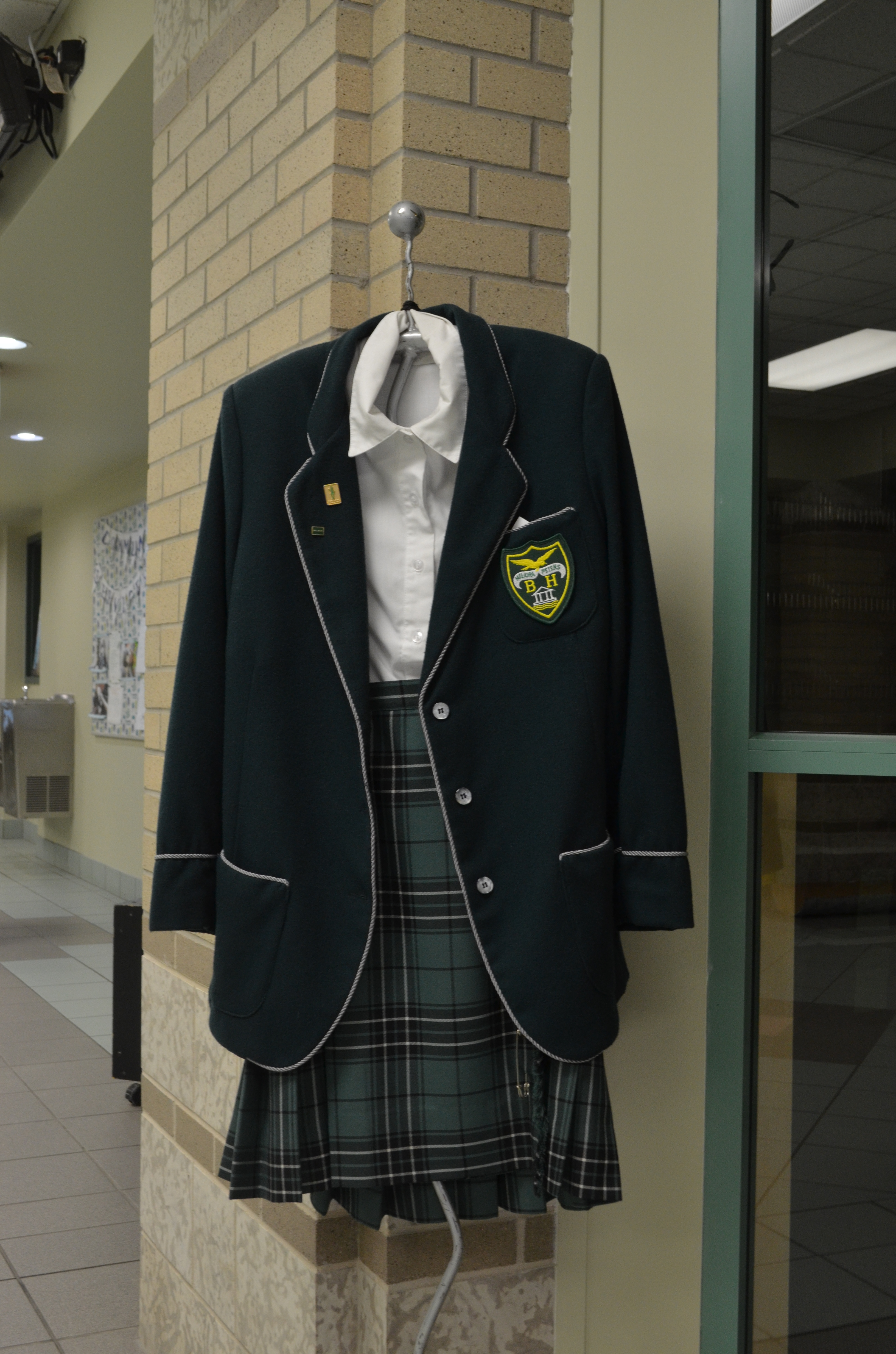 Balmoral Hall School uniform consisting of green tunic, white blouse, and green blazer with BH crest (2015)